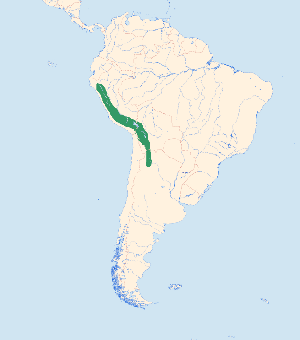 Range Map of Andean Flicker